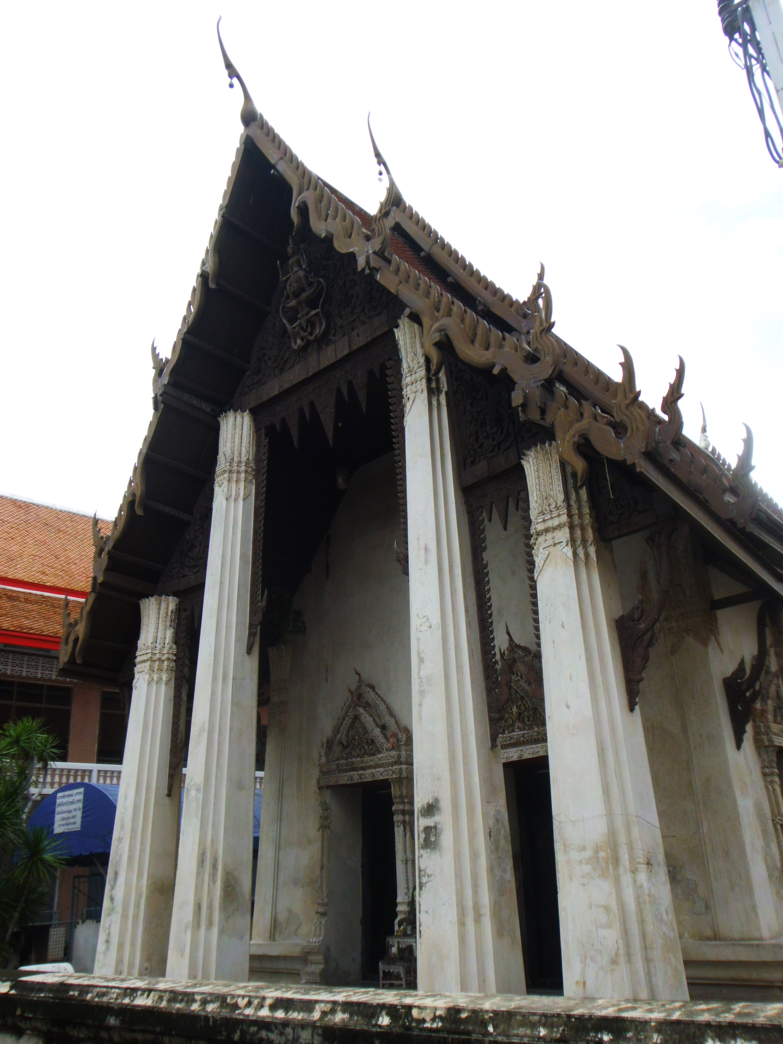 วัดป่าเกด